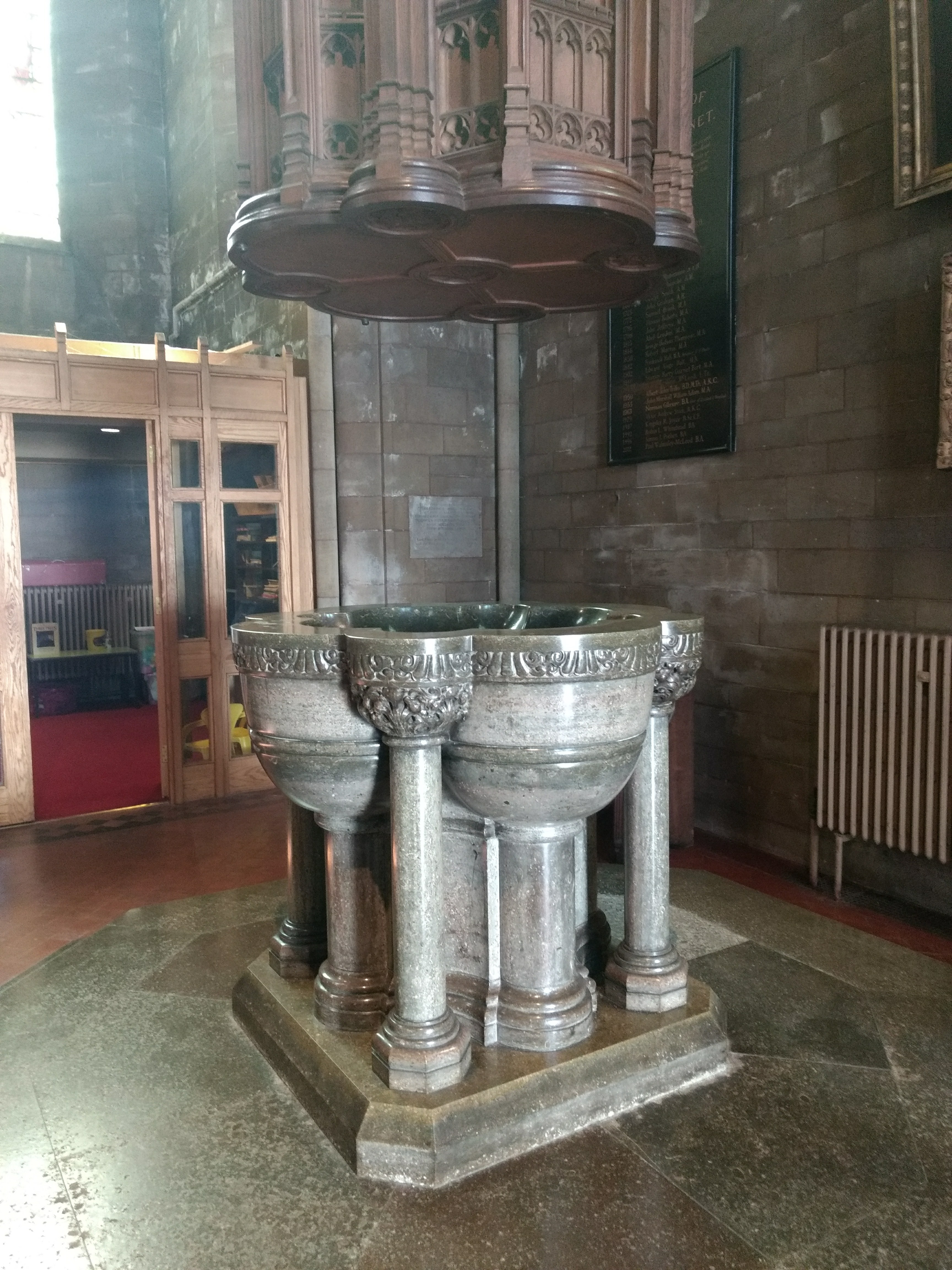 St John the Evangelist, Friern Barnet open day 8 July 2017